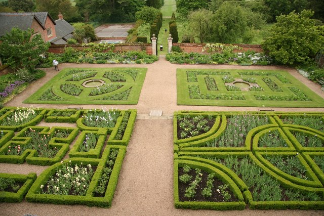 West Garden: The formal west garden of Doddington Hall seen from the Long Gallery, reorganised with help from Kew Gardens on 1900 in an Elizabethan garden layout.